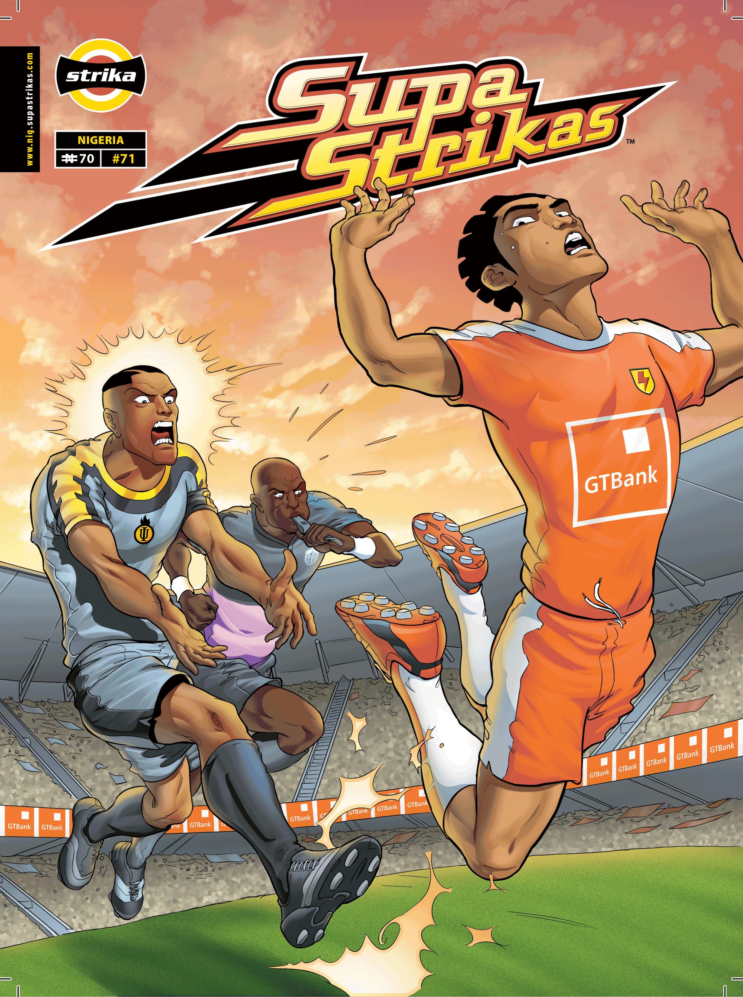 Supa Strikas Nigeria Cover